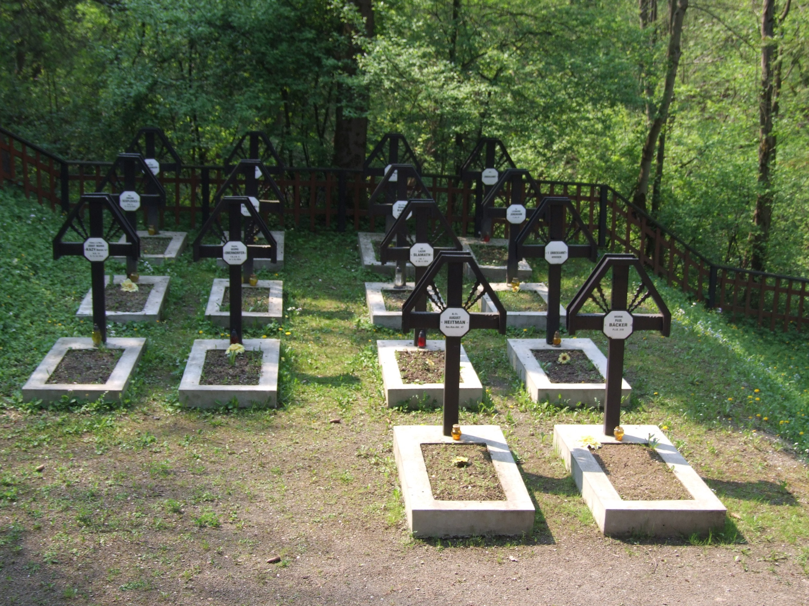 World War I Cemetery nr 365 in Tymbark